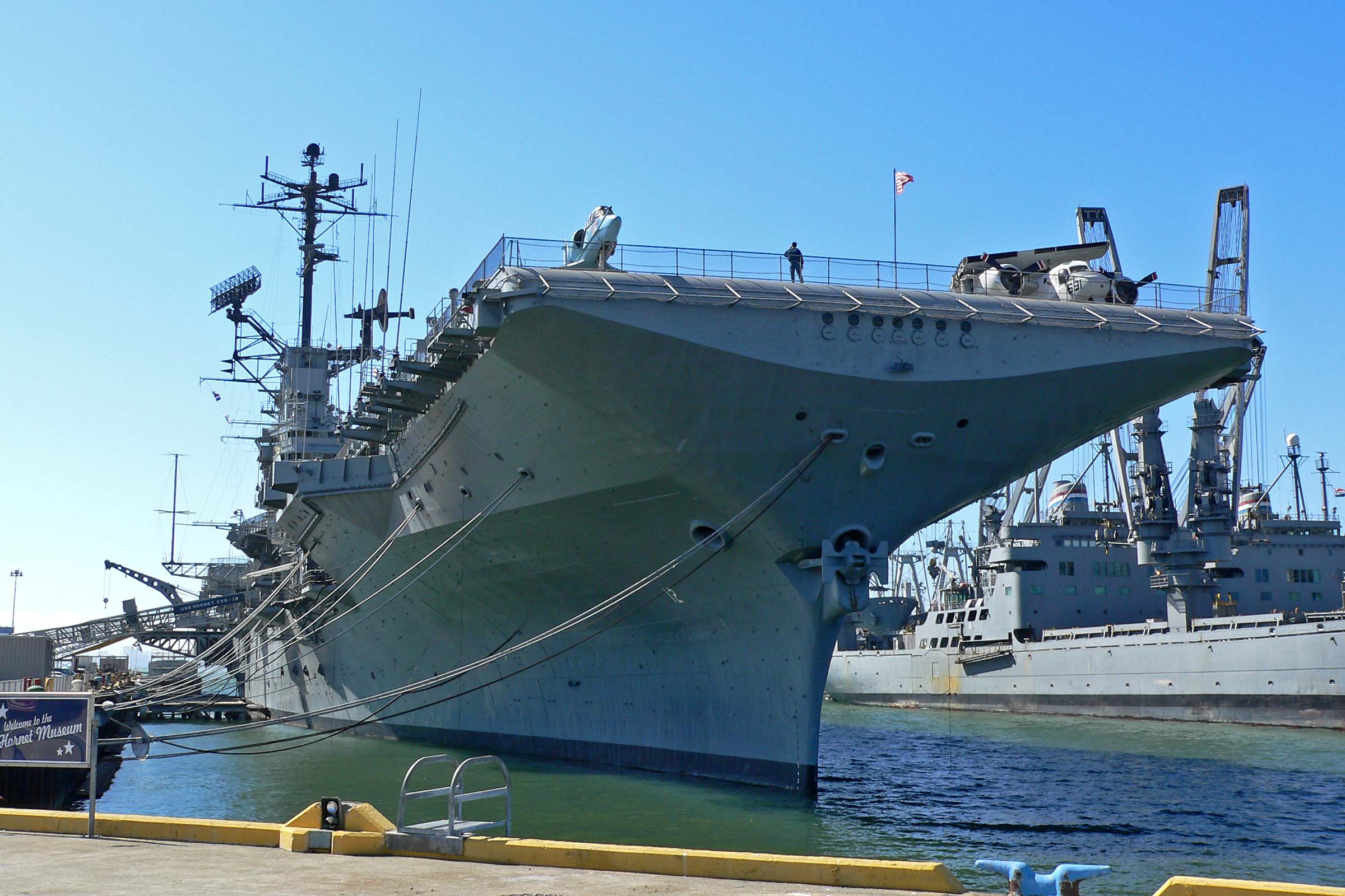 Photo of USS Hornet (CV-12) at Alameda